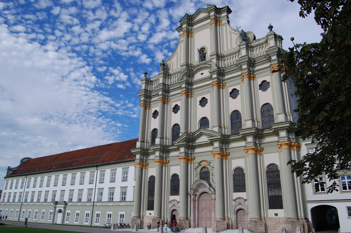 Kloster Fürstenfeld, Church of the Assumption of the Virgin Mary